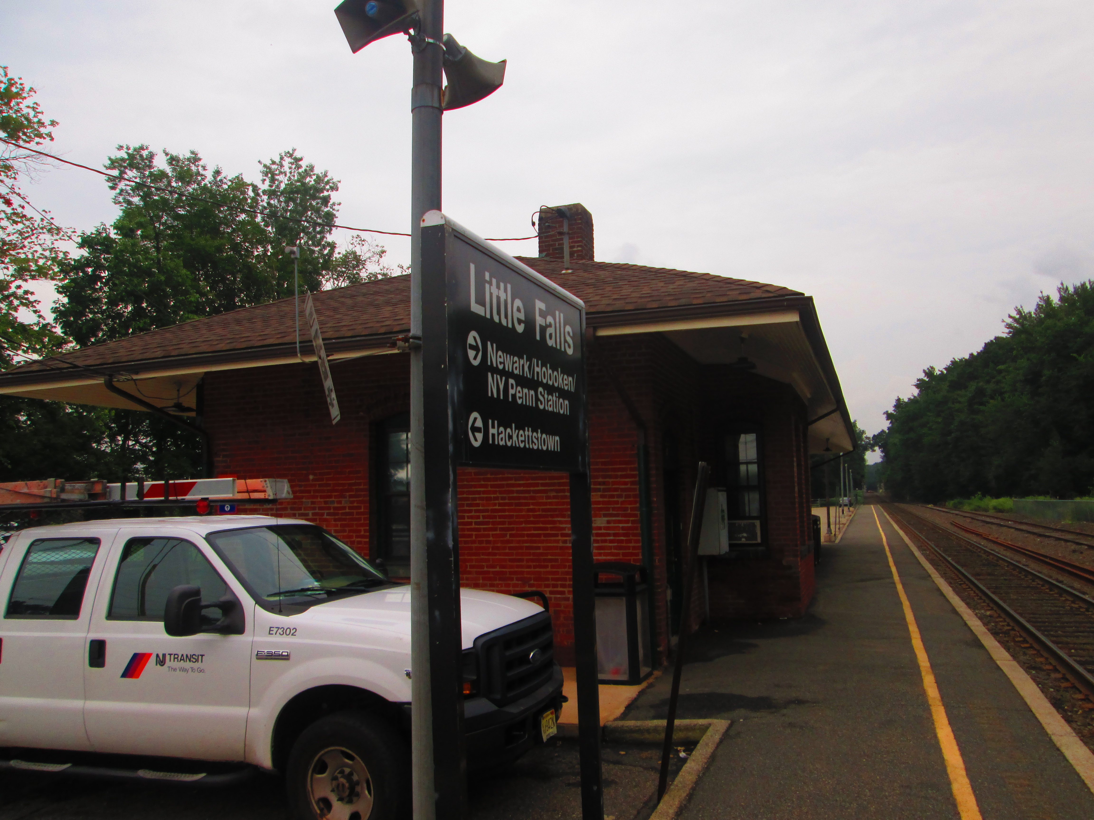 The New Jersey Transit station in Little Falls, New Jersey.